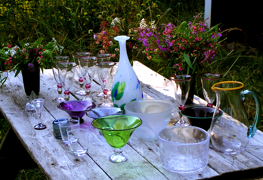 One days shopping at the Kingdom of Crystal in Småland, Sweden